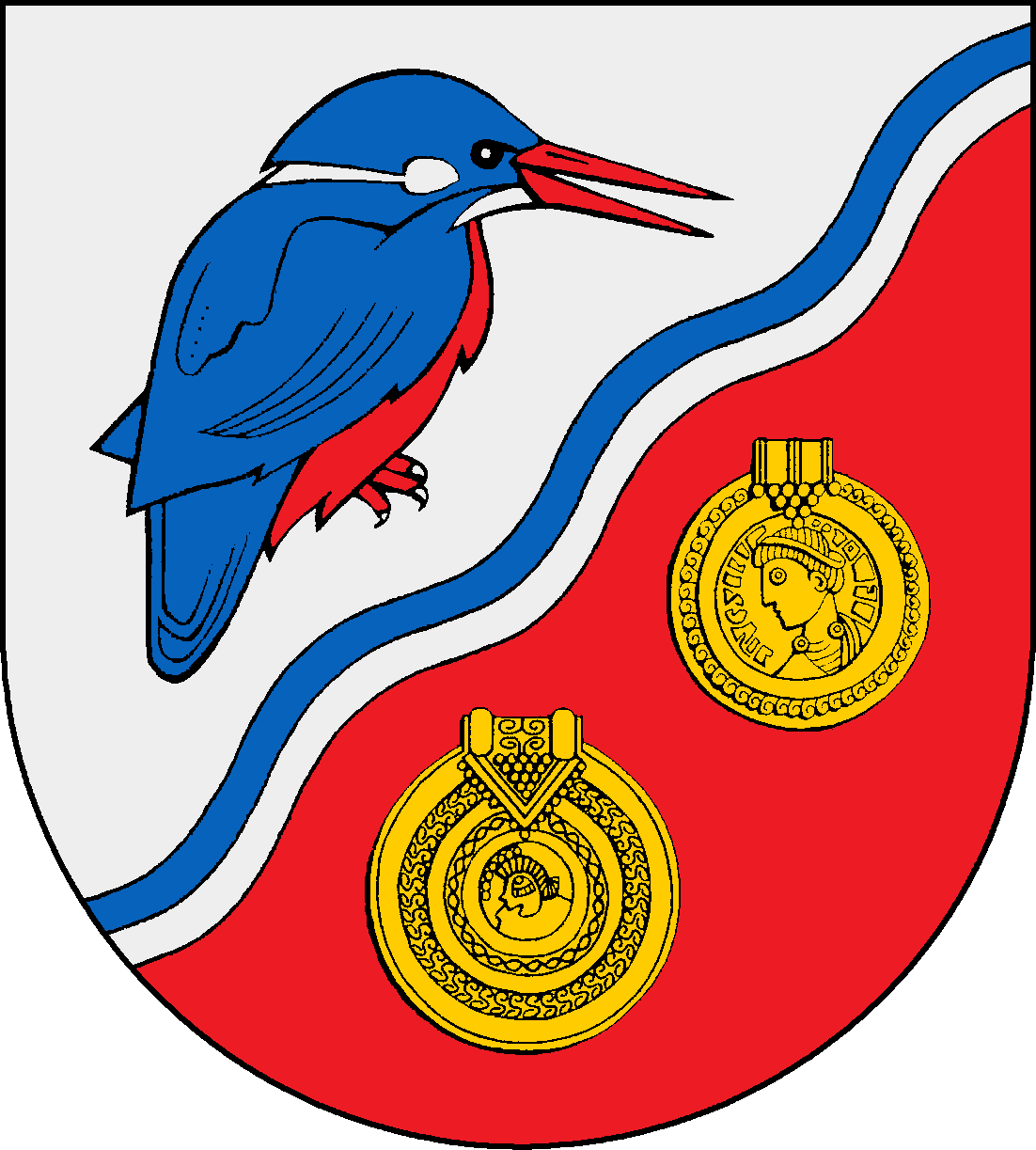 Coat of arms of the municipality Geltorf in Schleswig-Holstein, Germany.